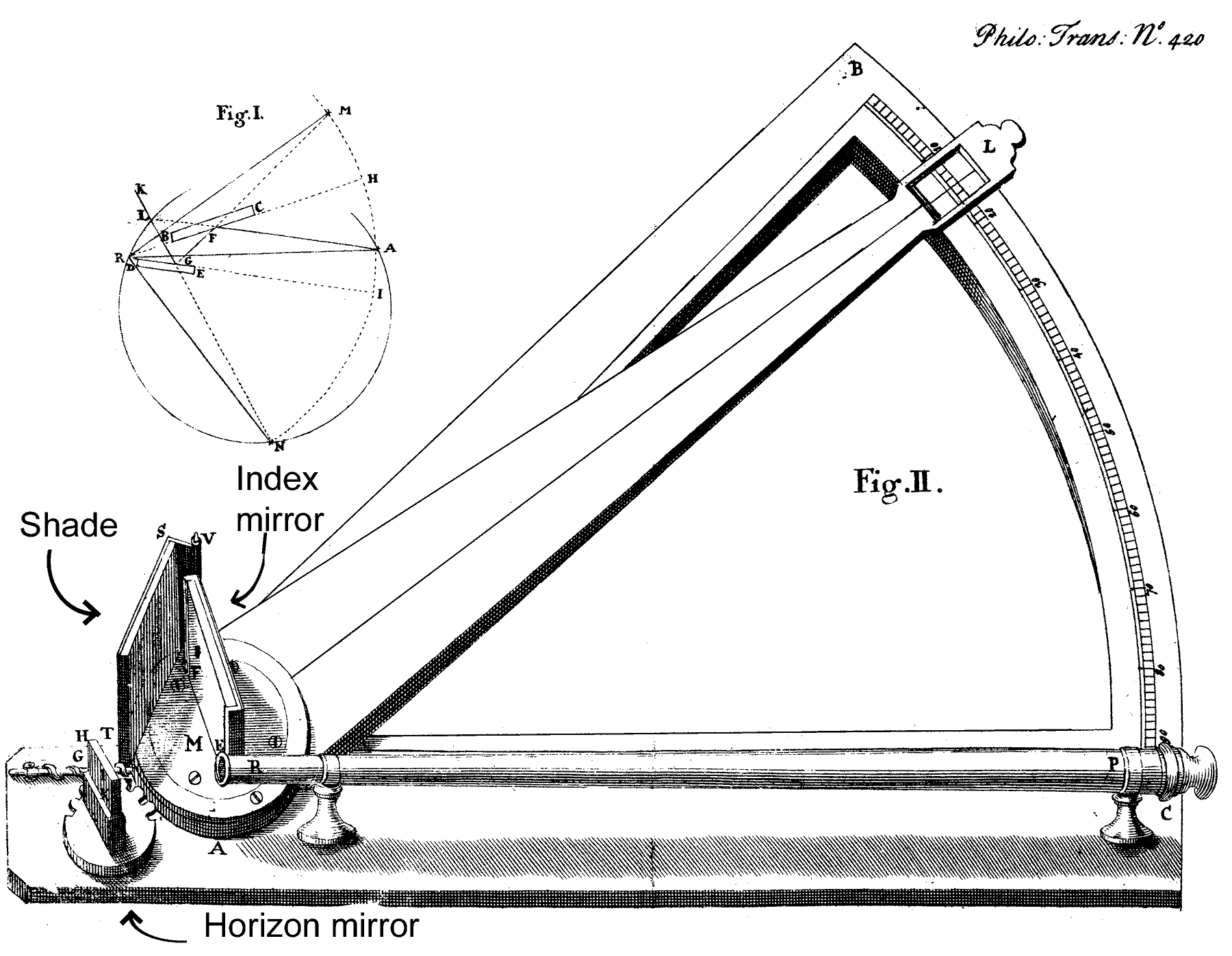 Drawing of John Hadley's Reflecting Quadrant